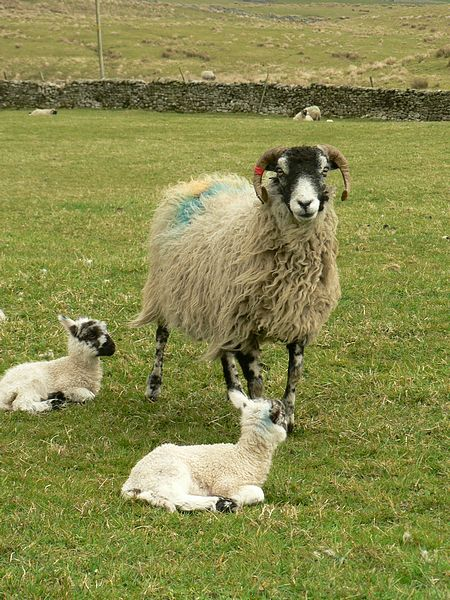 Sheep with young lambs In a field between Selside and Low Birkwith